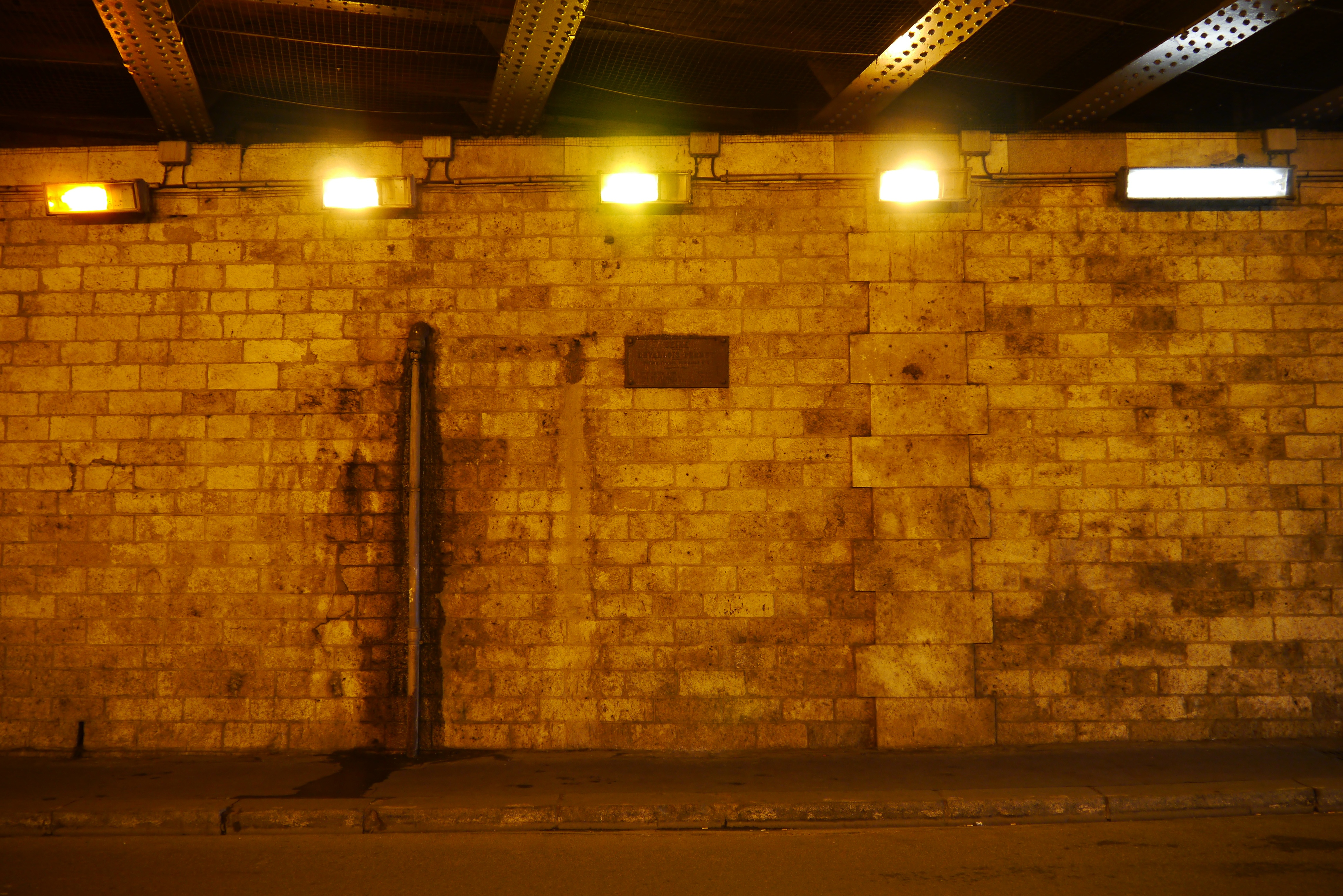 Levallois-Perret, rue Paul-Vaillant-Couturier: plaque de cocher under the railroad bridge.